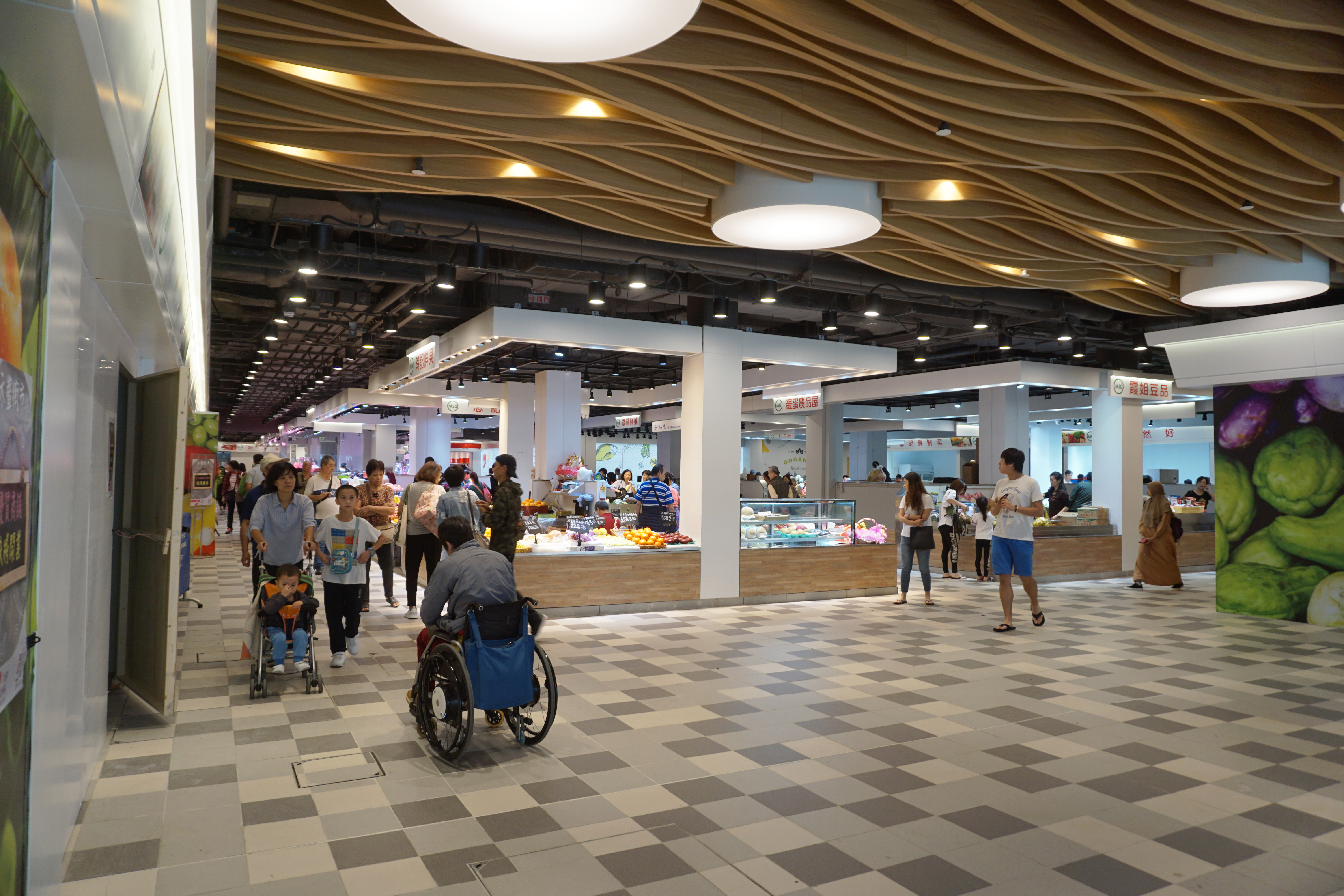 Wo Che Market in Shatin, Hong Kong.